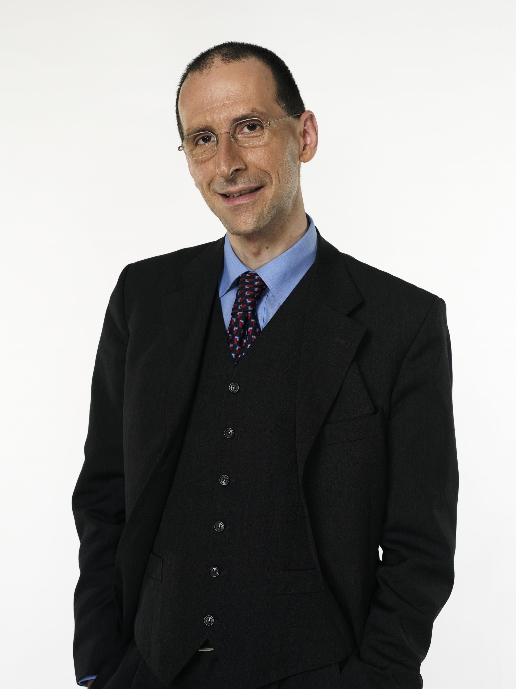 Austrian political scientist Peter Filzmaier